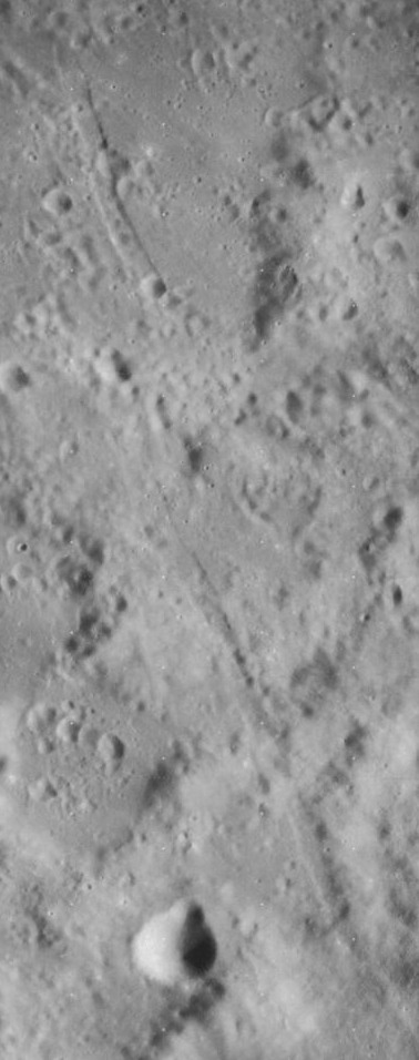 Rimae Romer, on the moon.